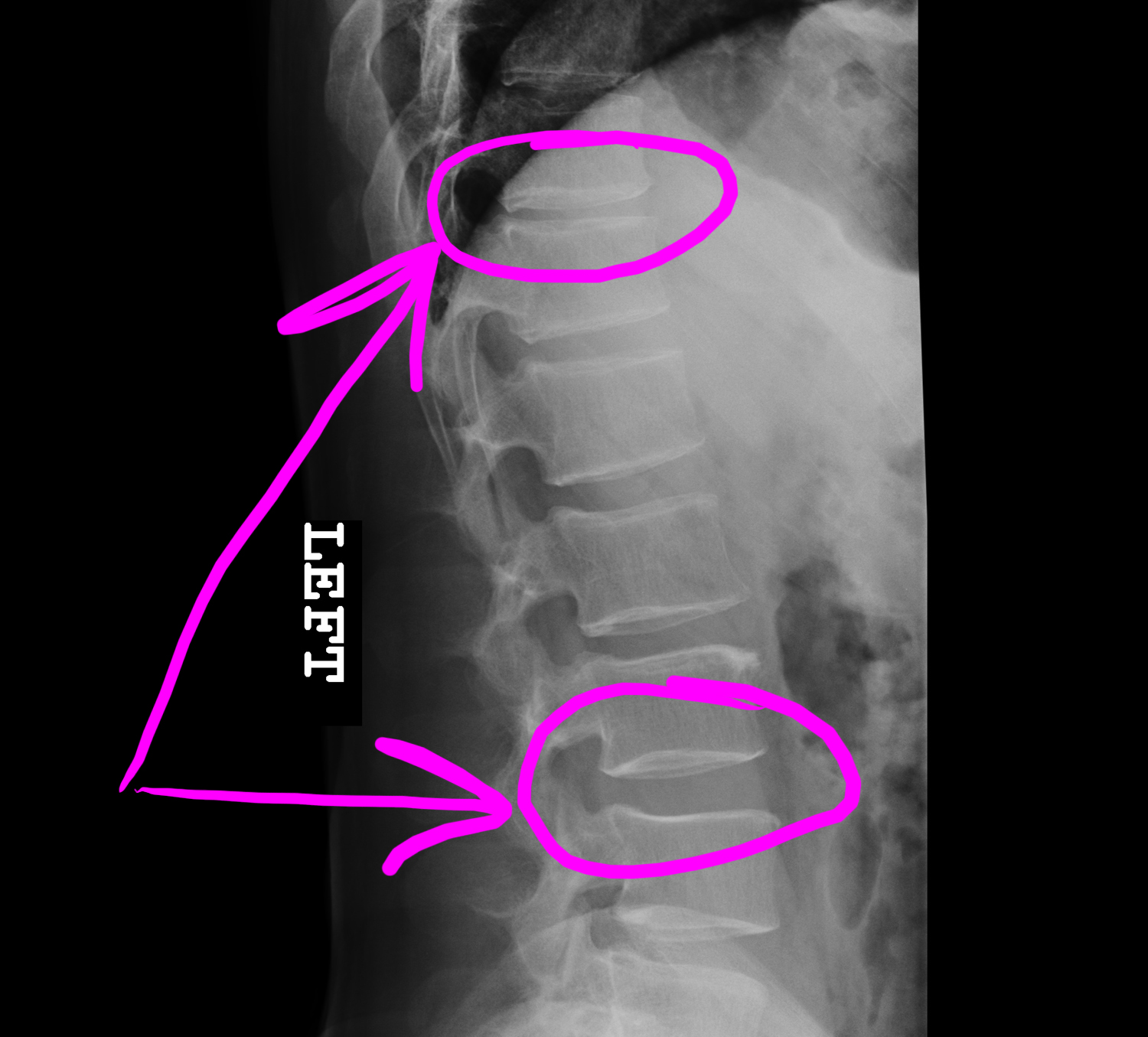 Example of how a telestrator is used to annotate a medical image during a telemedicine session. Image courtesy of Boeckeler Pointmaker.